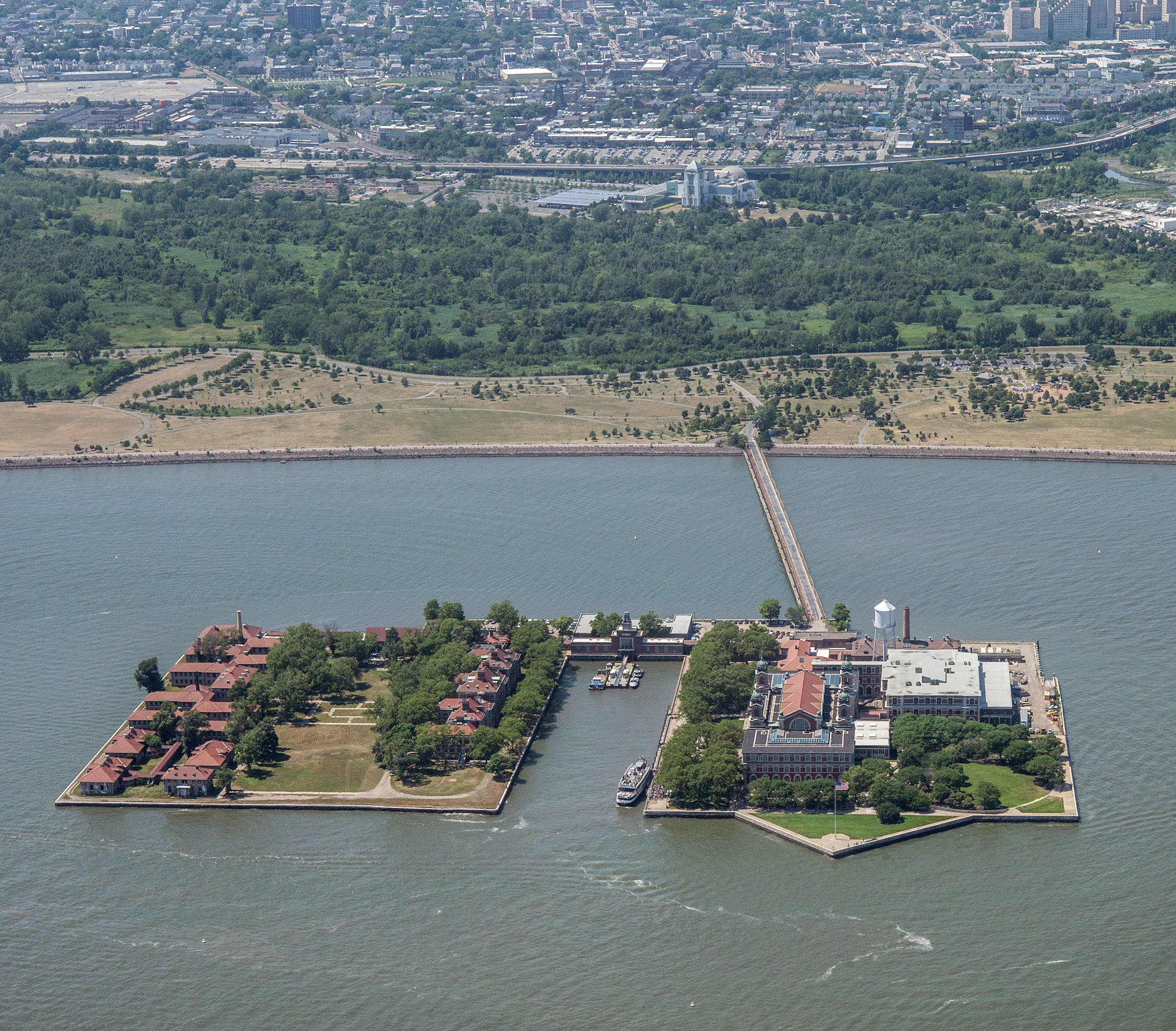 Aerial view of Ellis Island complex.